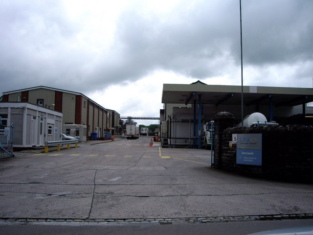 Uniq factory, Evercreech Uniq factory, milk processing and food manufacture